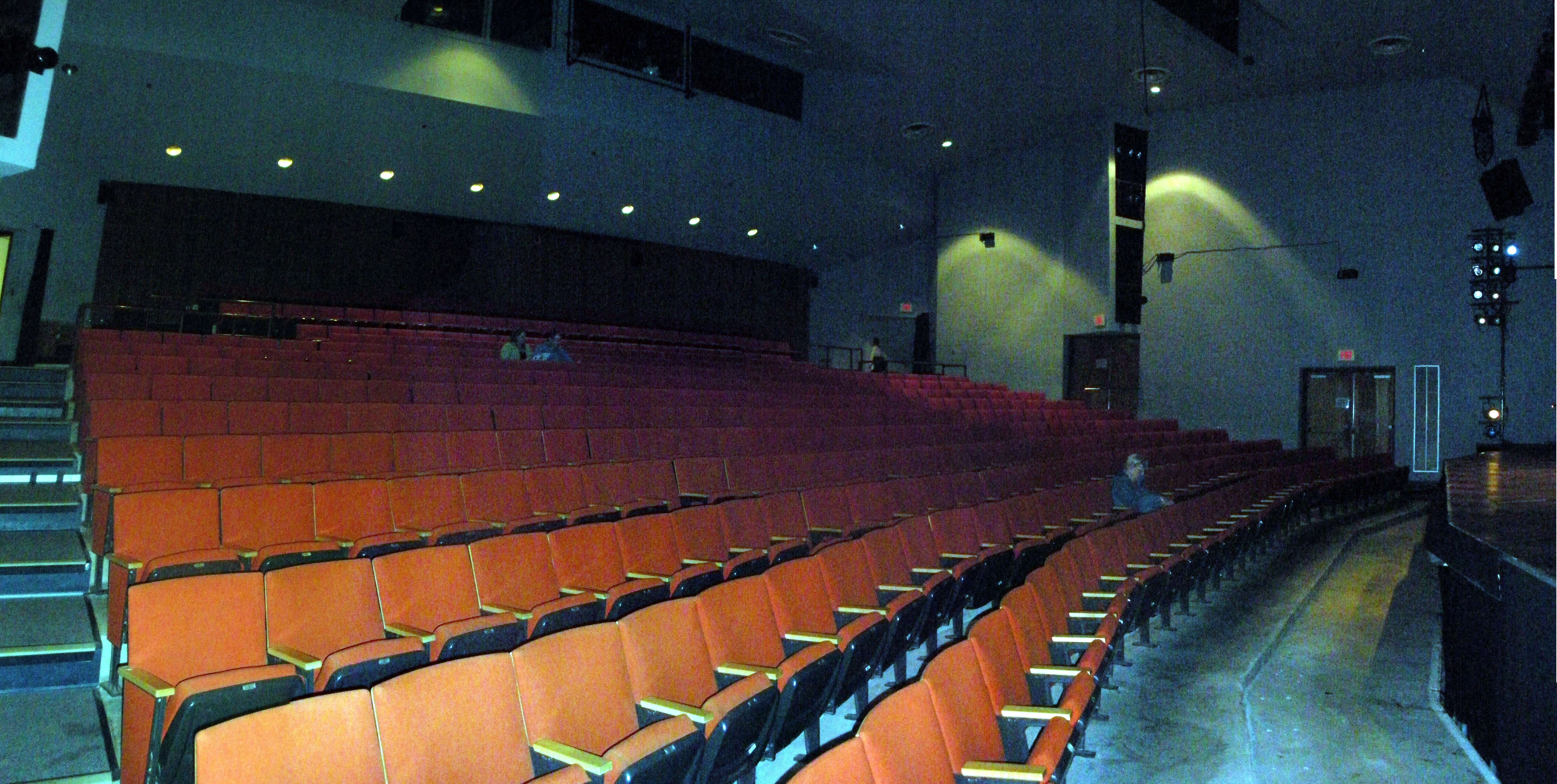 A panoramic of the interior of the Contemporary American Theater Festival Frank Center Stage